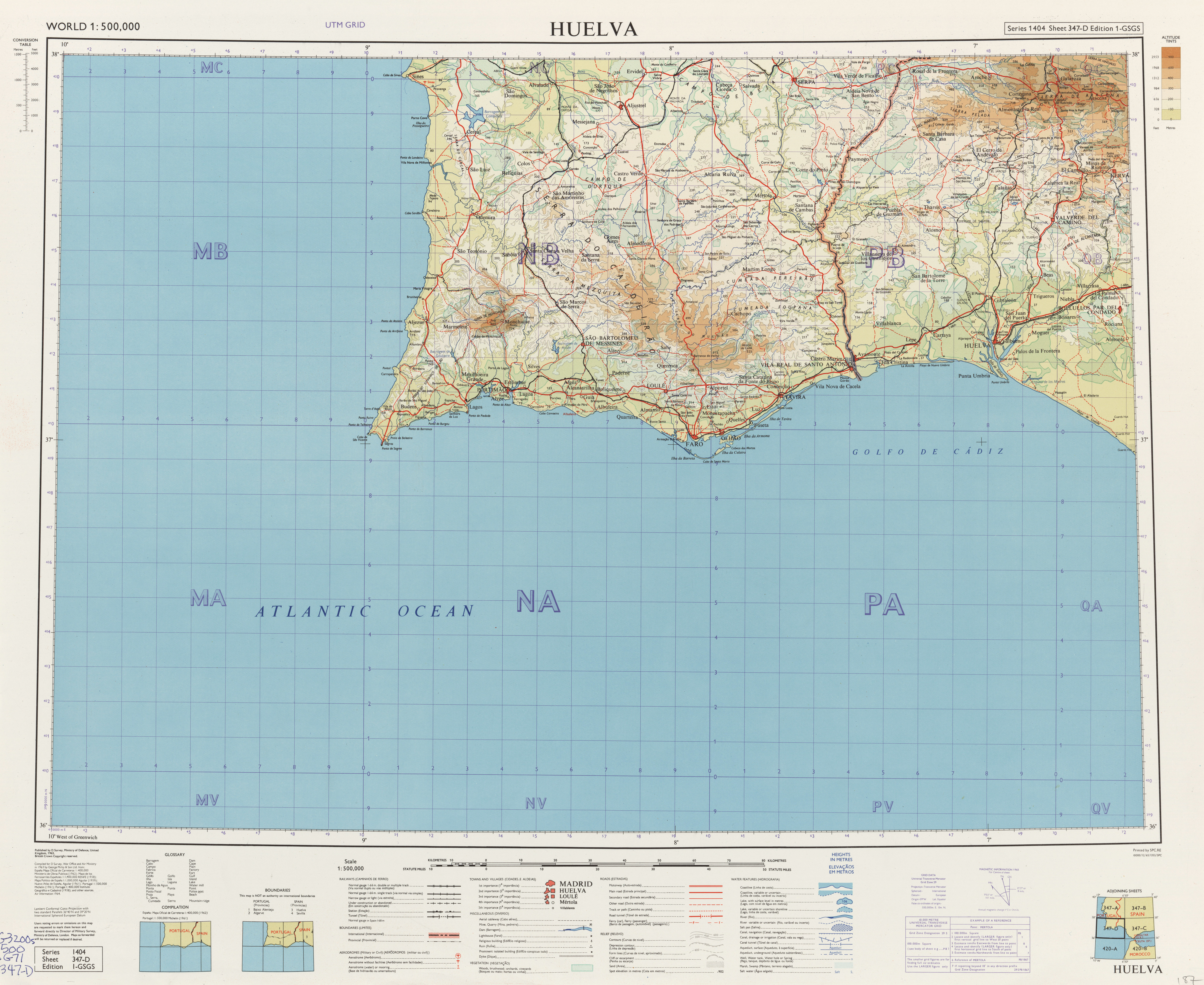 Military map of Huelva and the surrounding area in Portugal and Spain. US Army Map Service Series 1404 Sheet 347-D, scale 1:500,000